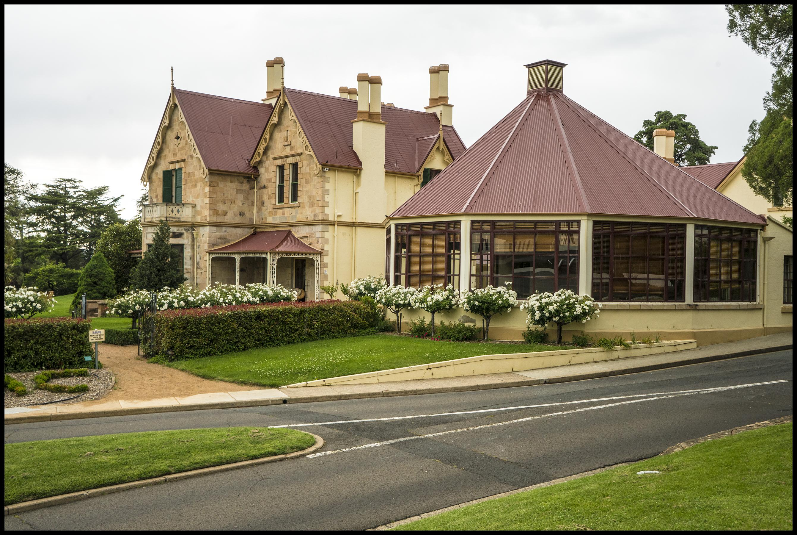 RMC Duntroon Canberra Officers Mess